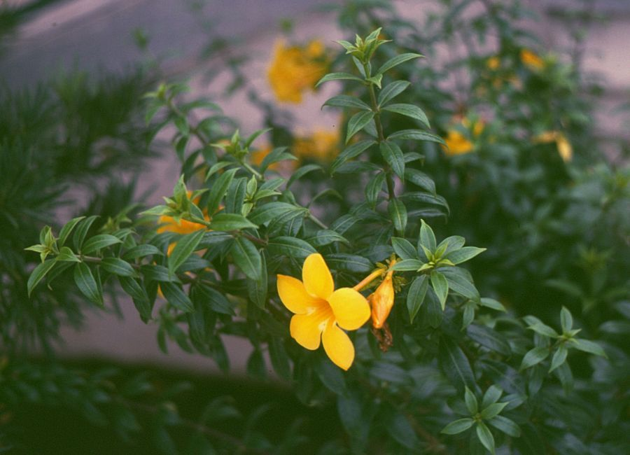 Goldtrompete (Allamanda cathartica), Hundsgiftgewächse (Apocynaceae) - Kambodscha/Cambodia, Phnom Penh, Königspalast/Royal Palace